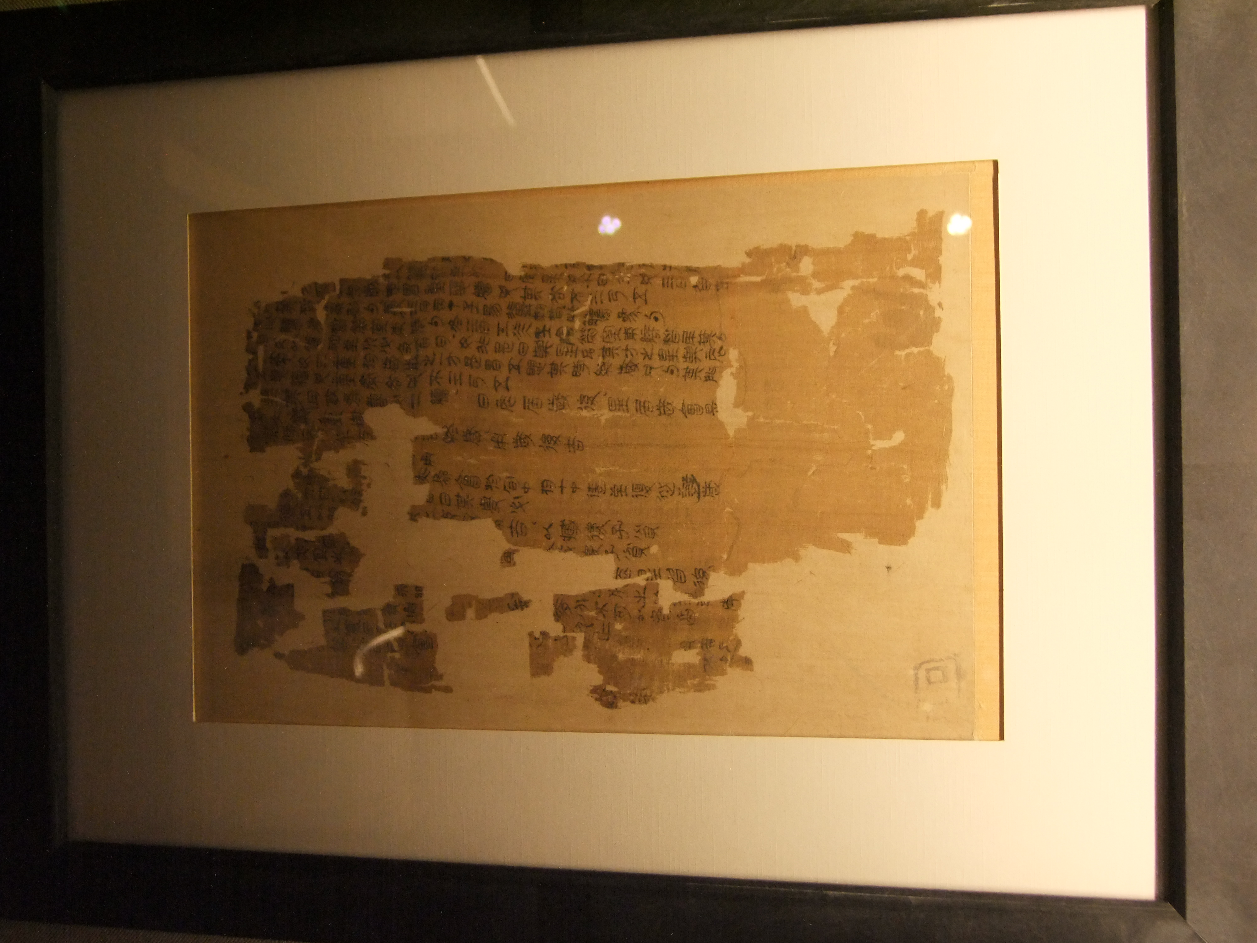 Silk scroll - Yin Yang and Five Elements, Western Han period (206 BC − 25 AD). Unearthed from Mawangdui Han Tomb No. 3. It is preserved in Hunan Museum.